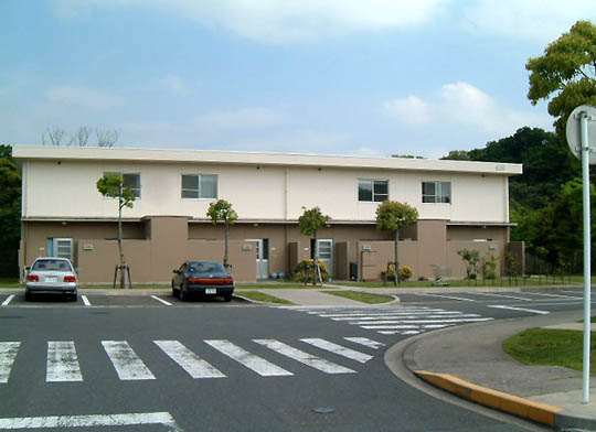 A family housing for U.S. military families in Ikego, Zushi, Kanagawa, Japan